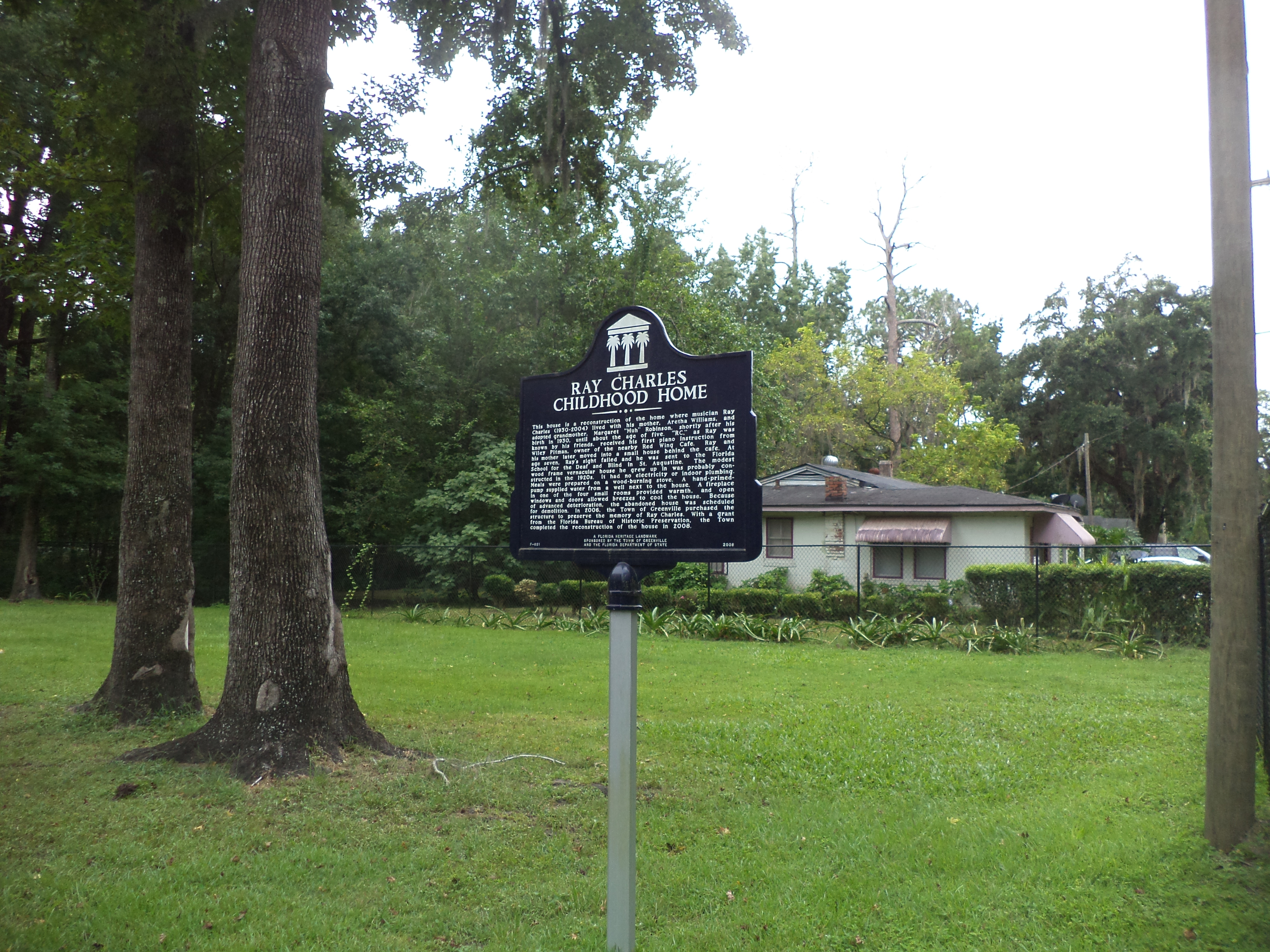 Ray Charles Childhood Home historical marker, Greenville, Madison County, Florida